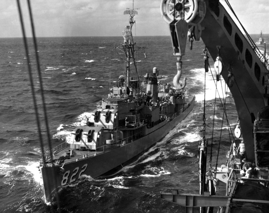 The U.S. Navy Gearing-class destroyer USS Robert H. McCard (DD-822) coming alongside the aircraft carrier USS Franklin D. Roosevelt (CVA-42) in the Mediterranean Sea, in 1961. Following this deployment, Robert H. McCard underwent the FRAM I modernization until December 1962.